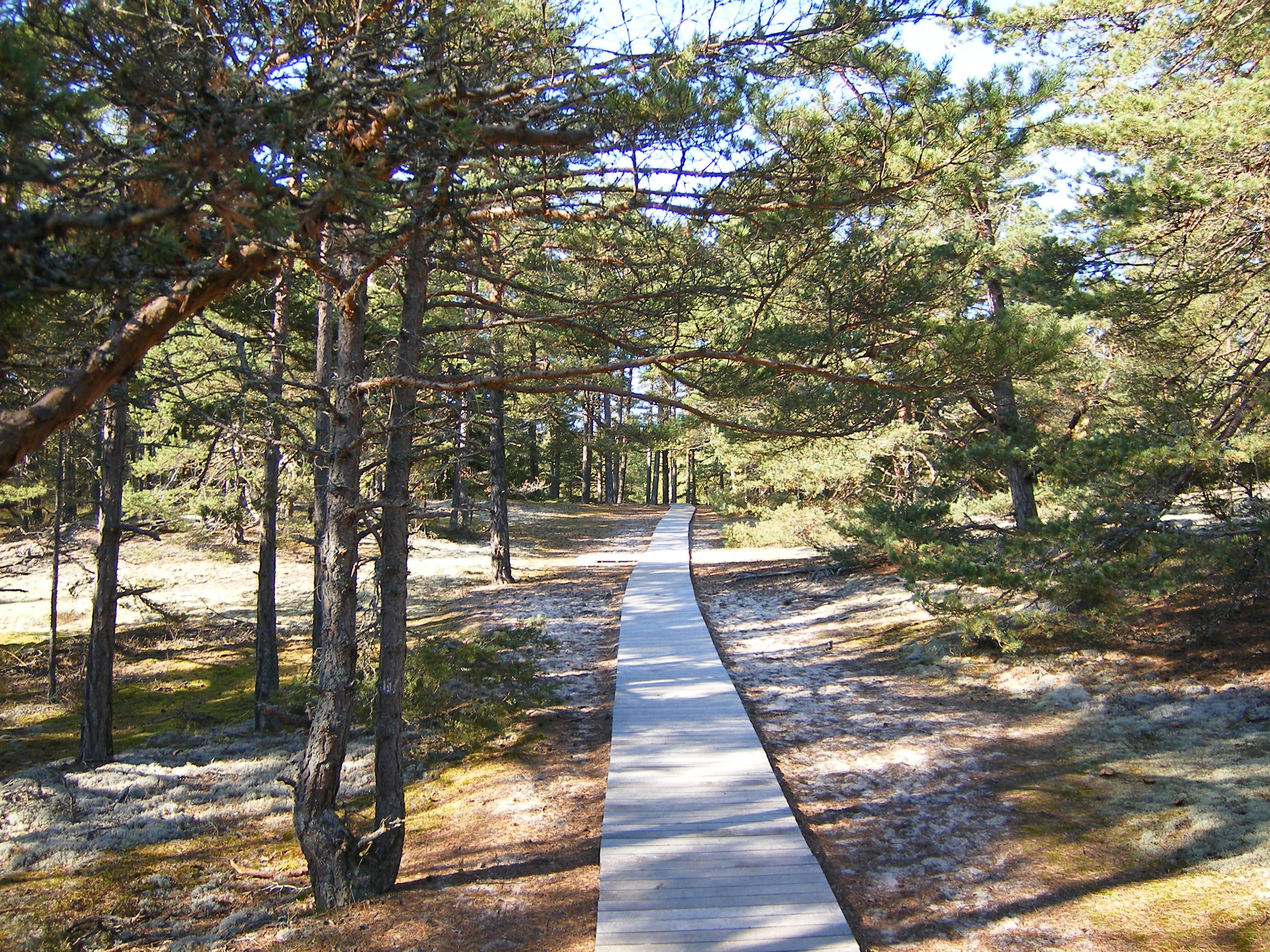 Pinus sylvestris, Homrevet, Northern Öland, Sweden (close to the beach)